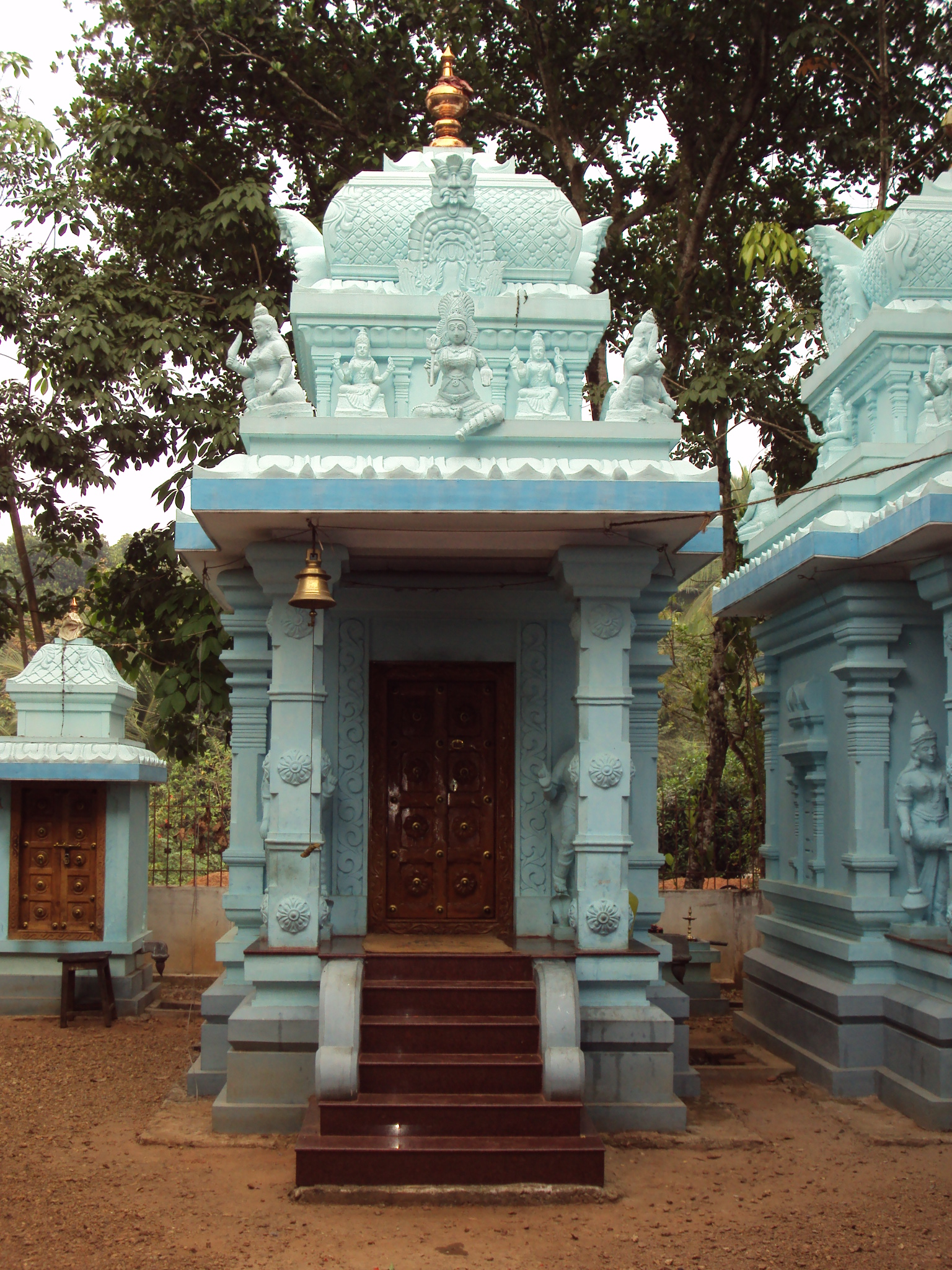 Muttakuzhi Vilai Amman Kovil